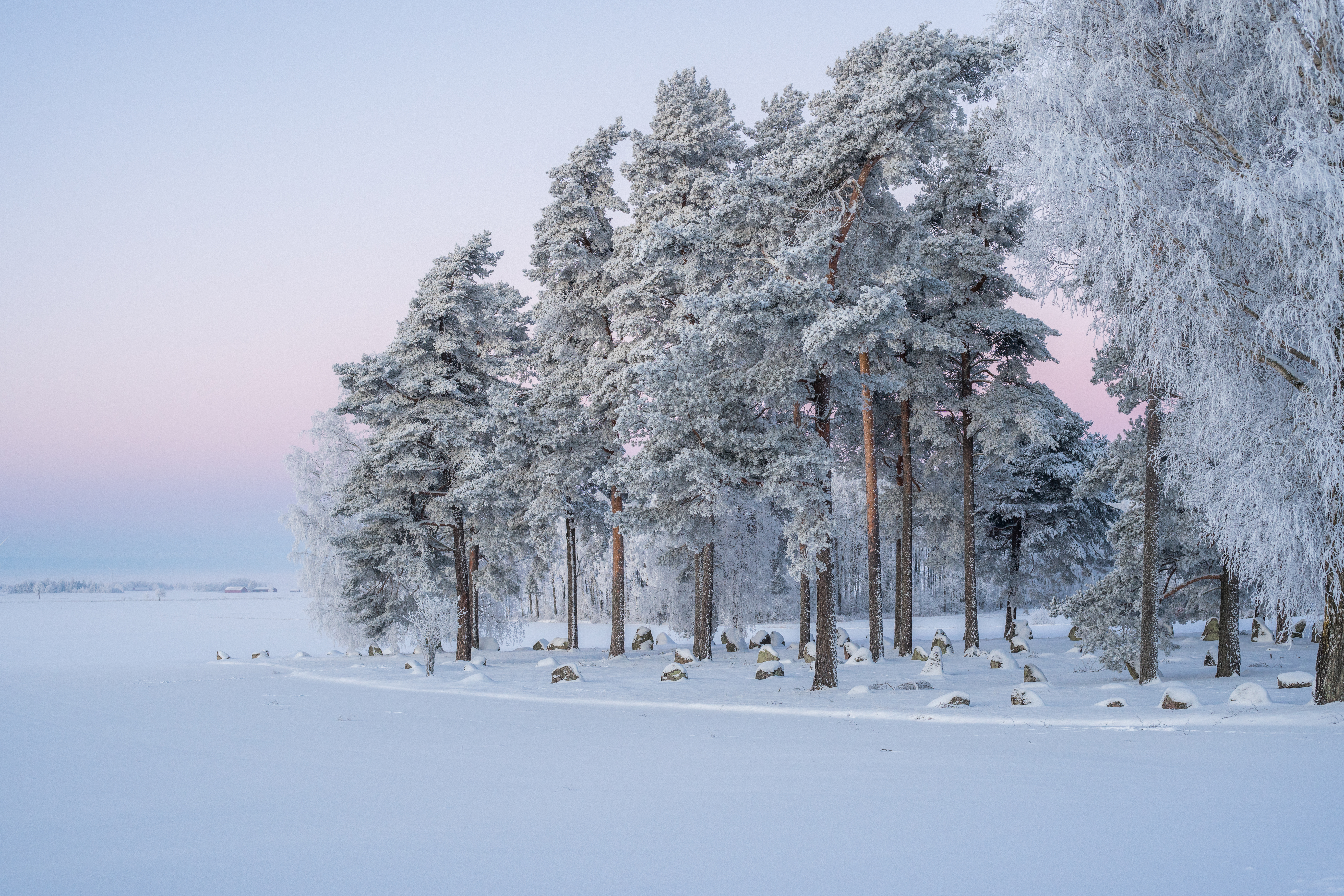 The Brakelund burial ground at Hasslösa, Lidköping municipality.